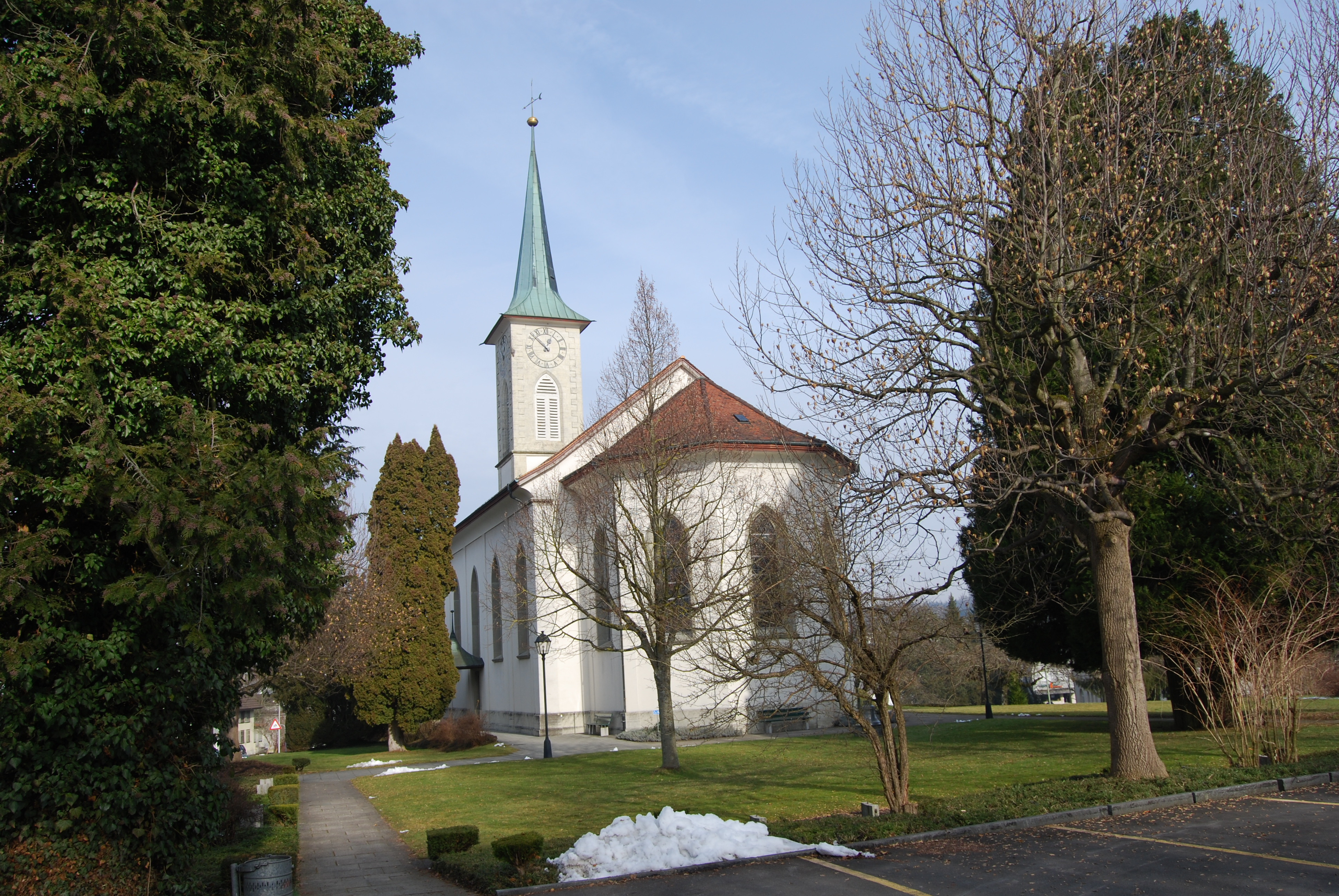 Protestant church of Menziken, canton of Aargau, SwitzerlandEsperanto: Reformita preĝejo de Menziken, Kantono Argovio, Svislando